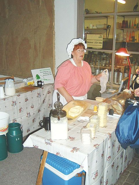 Farmer selling the churned butter (machine in the foreground).